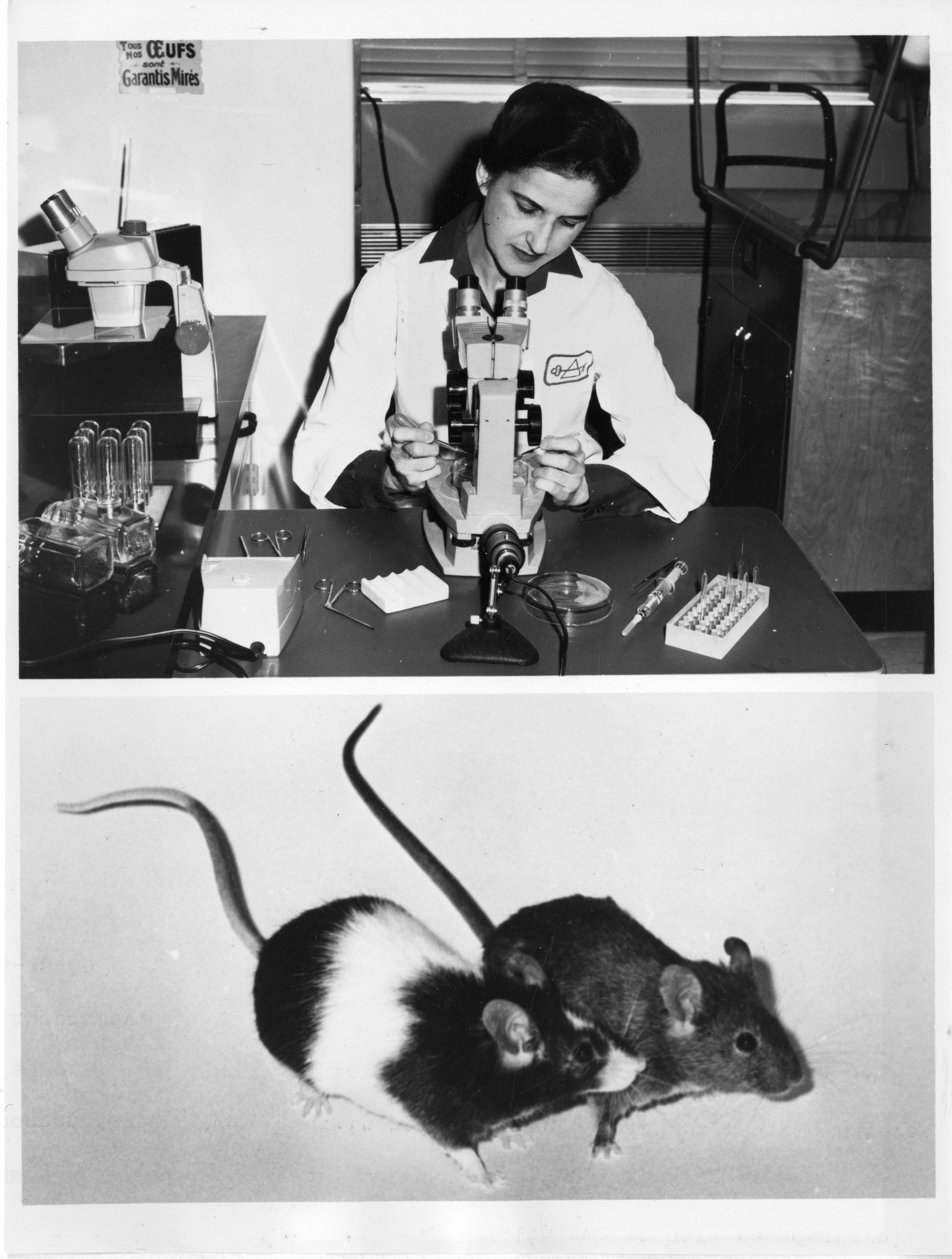 Biologist Beatrice Mintz (b. 1921) was a professor at the University of Chicago, 1946-1960, before joining the Institute for Cancer Research (now called the Fox Chase Cancer Center) and then becoming a professor at the University of Pennsylvania in 1965. She had attended Hunter College, (A.B., 1941) and University of Iowa (Ph.D., 1946)